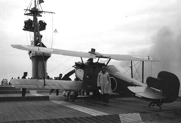 The first landing on the japanese aircraft carrier Hosho.